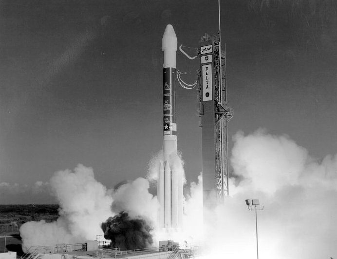 Delta II Model 7925 launch carrying the USA-66/GPS IIA-1 navigation satellite - 26 November 1990